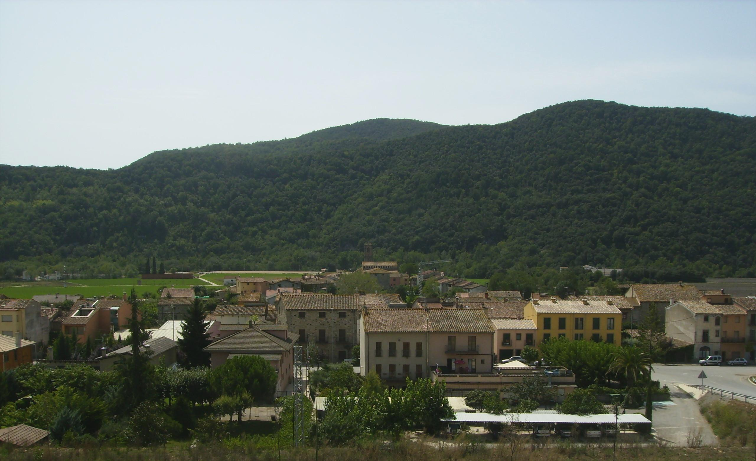 Panoramic view of Argelaguer (Catalonia)